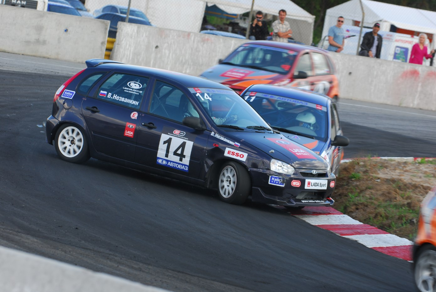 Vlad Nezvankin, LADA Kalina Cup 2008